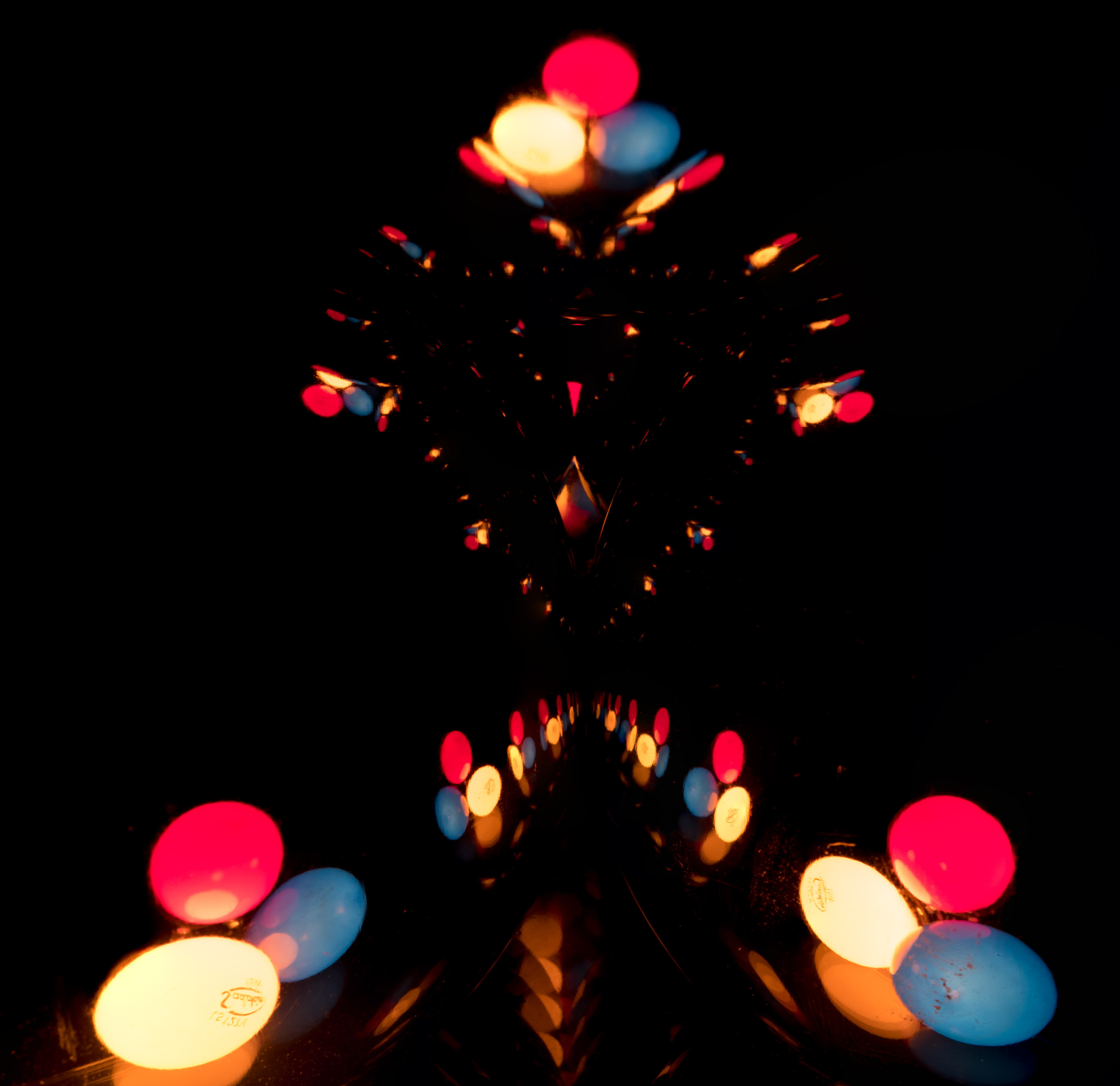 Representation of Lakes of Wada